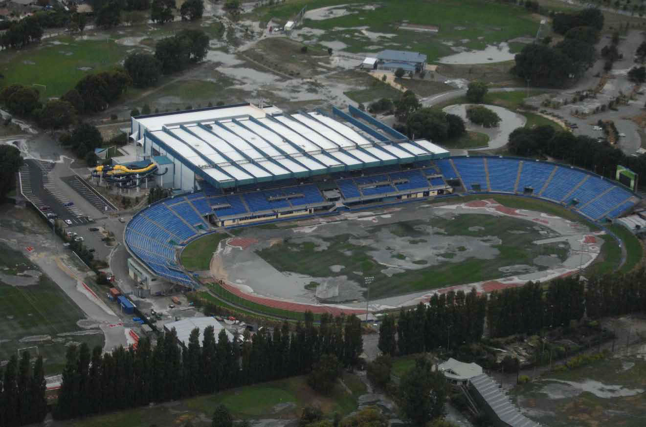 Image from Royal New Zealand Air Force P-3K Orion that conducted aerial surveillance of areas affected in Christchurch earthquake on 22 February 2011 Crown Copyright 2011, NZ Defence Force – Some Rights Reserved.